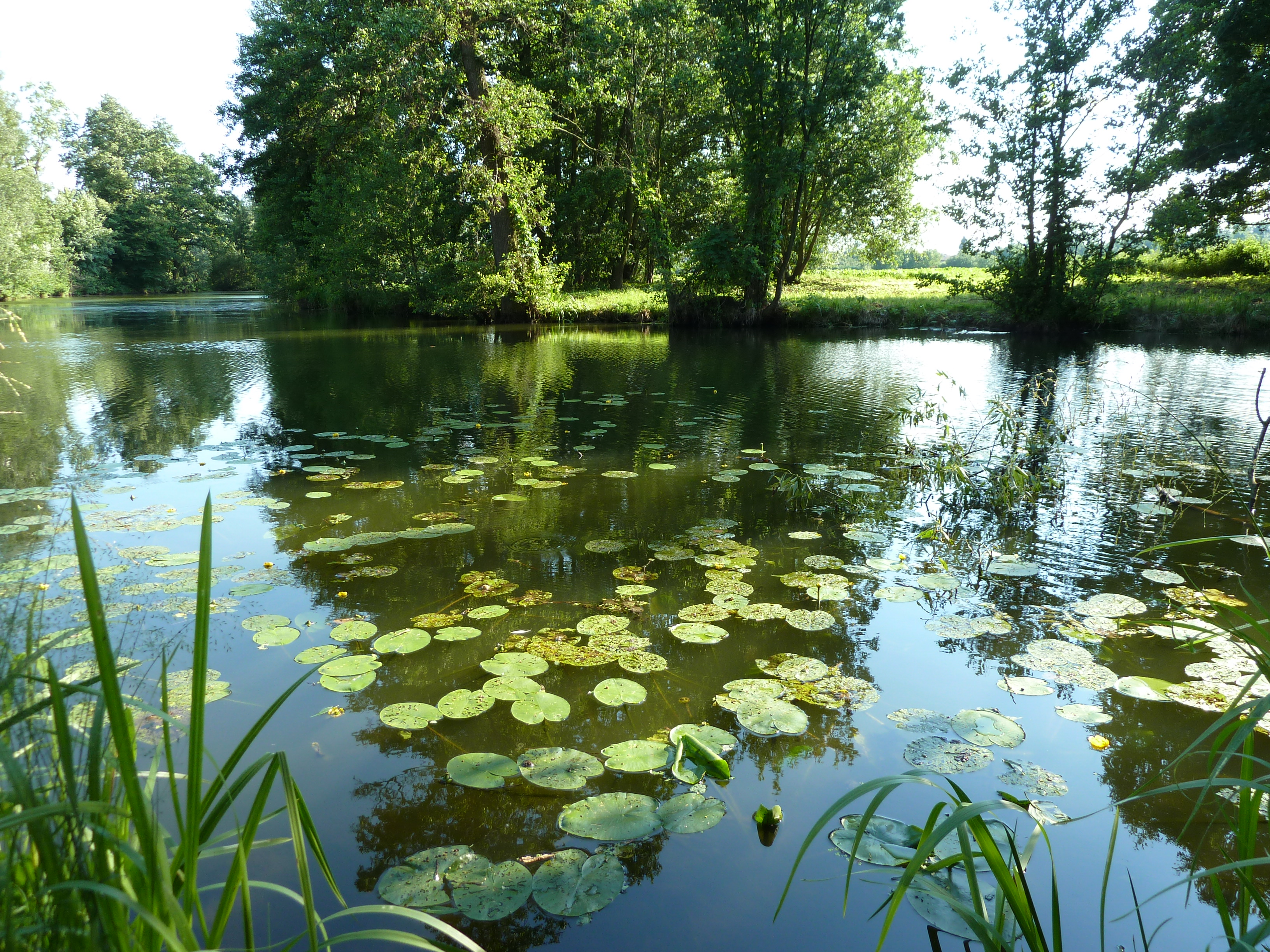 Natural monument Častava in PLA Litovelské pomoraví (central Moravia, Czech Republic)